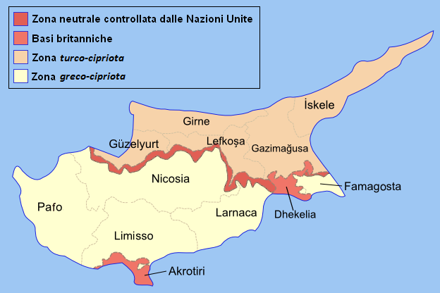 Italian version of File:Cyprus districts named.png